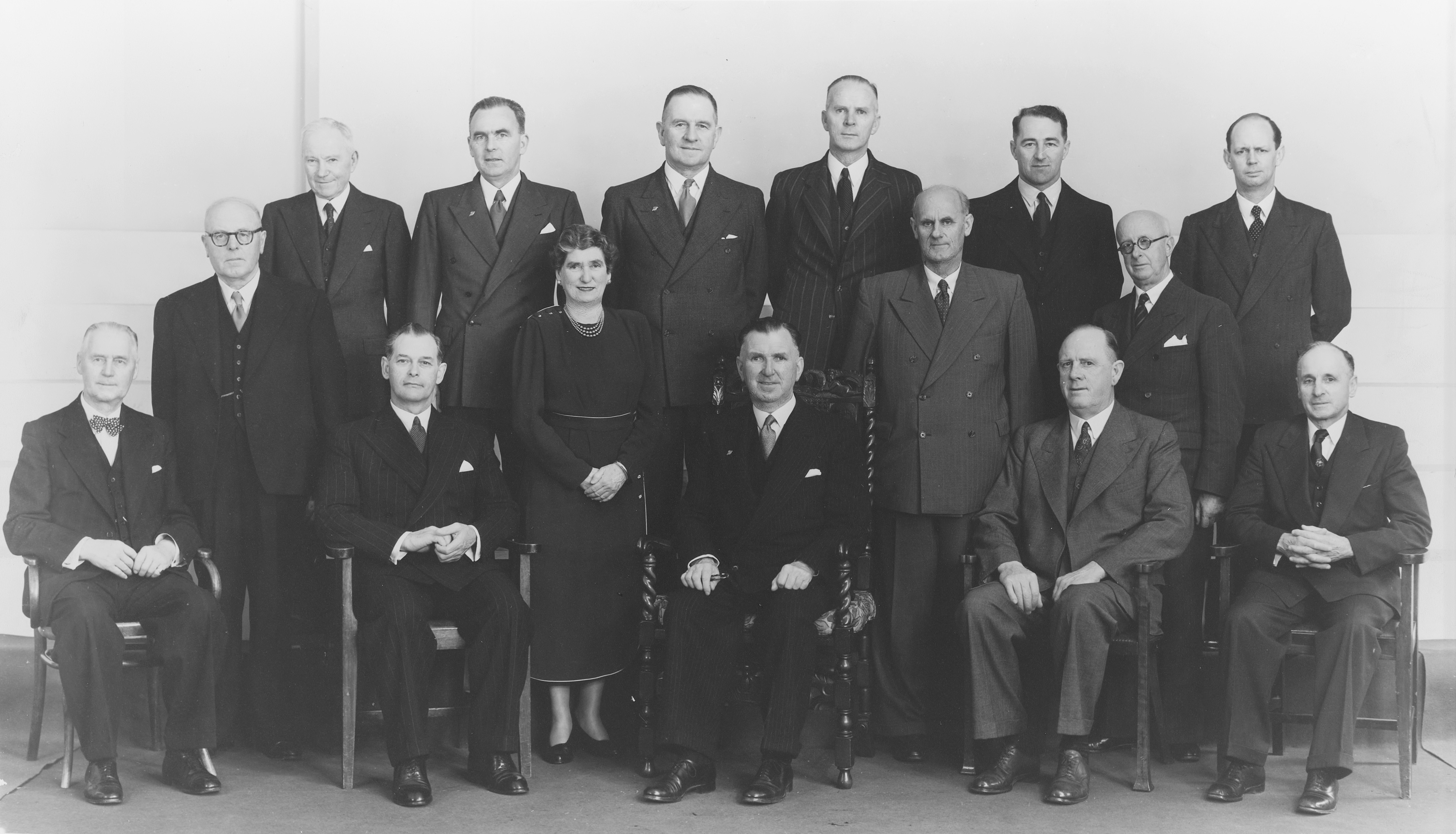 Frank Thompson of Crown Studios (Photographer) : New Zealand National Party, Prime Minister and Cabinet, 1951 New Zealand National Party Prime Minister, and cabinet of 1951. From left to right, back row: Walter James Broadfoot, Wilfred Henry Fortune, Thomas Lachlan Macdonald, Ernest Bowyer Corbett, John Ross Marshall, Jack Thomas Watts. Middle row: William Alexander Bodkin, Grace Hilda Cuthberta Ross, William Stanley Goosman, Ronald Macmillan Algie. Front row: Charles Moore Bowden, Keith Jacka Holyoake, Sidney George Holland, William Sullivan, Thomas Clifton Webb.